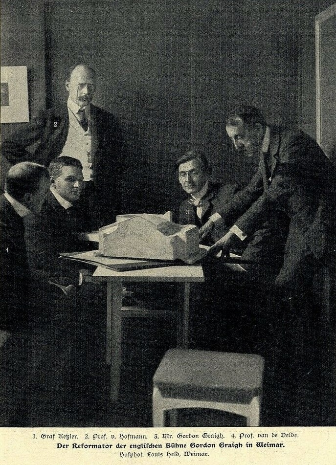 L to R: Harry Graf Kessler, Ludwig von Hofmann, Edward Gordon Craig und Henry Van de Velde.